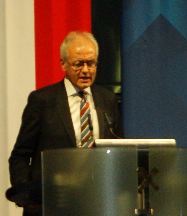 Marco Buti, Director-General of the European Commission, Directorate-General for Economics and Financial Affairs (DG ECFIN).